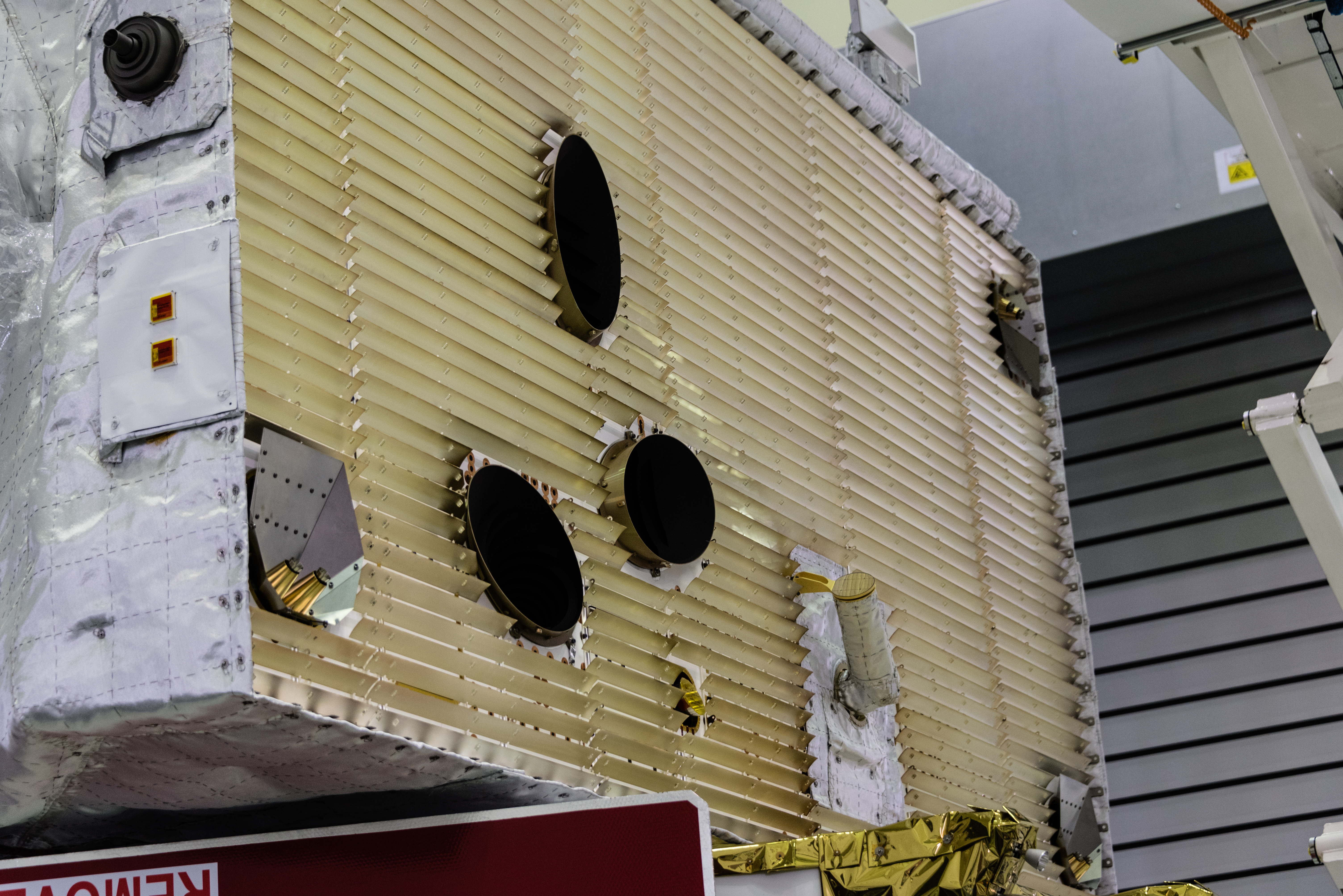 The BepiColombo Mercury Planetary Orbiter has a number of distinctive features, not least its 3.7 m wide radiator panel seen above. The radiator is designed to reflect heat directionally, allowing the spacecraft to fly at low altitude over the hot surface of the planet. Heat generated by spacecraft subsystems and payload components, as well as heat that comes from the Sun and Mercury and ‘leaks’ through the blankets into the spacecraft, is carried away to the radiator by heat pipes. Most science instruments are mounted on the side of the spacecraft that will point at Mercury, with certain instruments or sensors located at the main radiator, to achieve the low detector temperatures needed for sensitive observations. For example, the rectangular panel with the small cylindrical protrusion at the bottom centre is the PHEBUS instrument, an ultraviolet spectrometer. Left of that, the small feature is MERTIS, a radiometer and thermal imaging spectrometer. The three oval shapes indicate startrackers, used for navigation, and the two red squares on the side are sun sensors. A low-gain antenna is situated above the sun sensors.